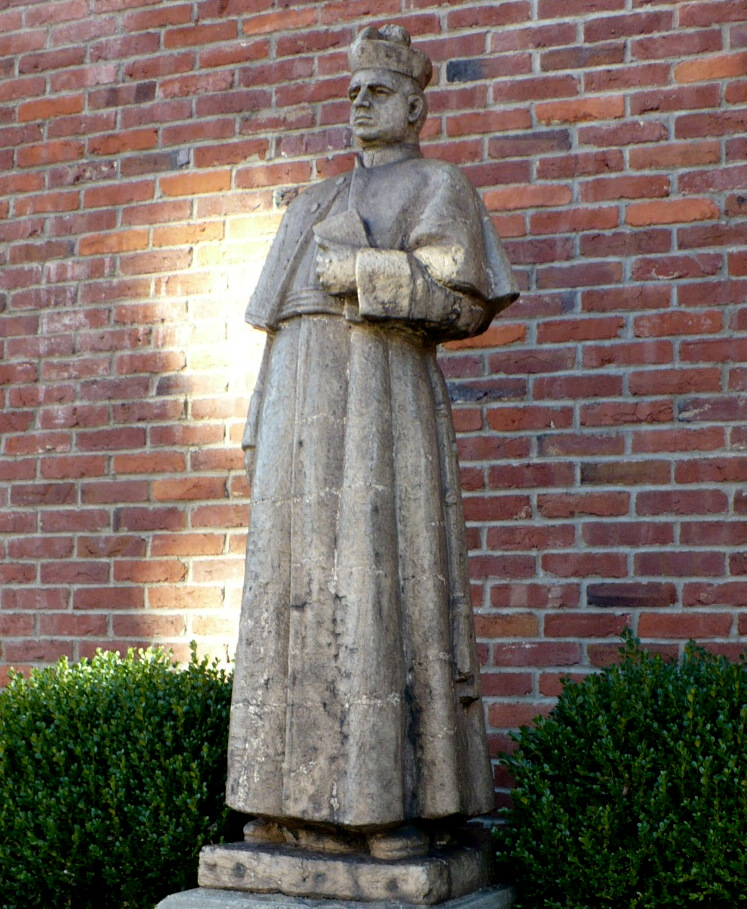 Father Joseph Strub, C.S.Sp., founder of Duquesne University